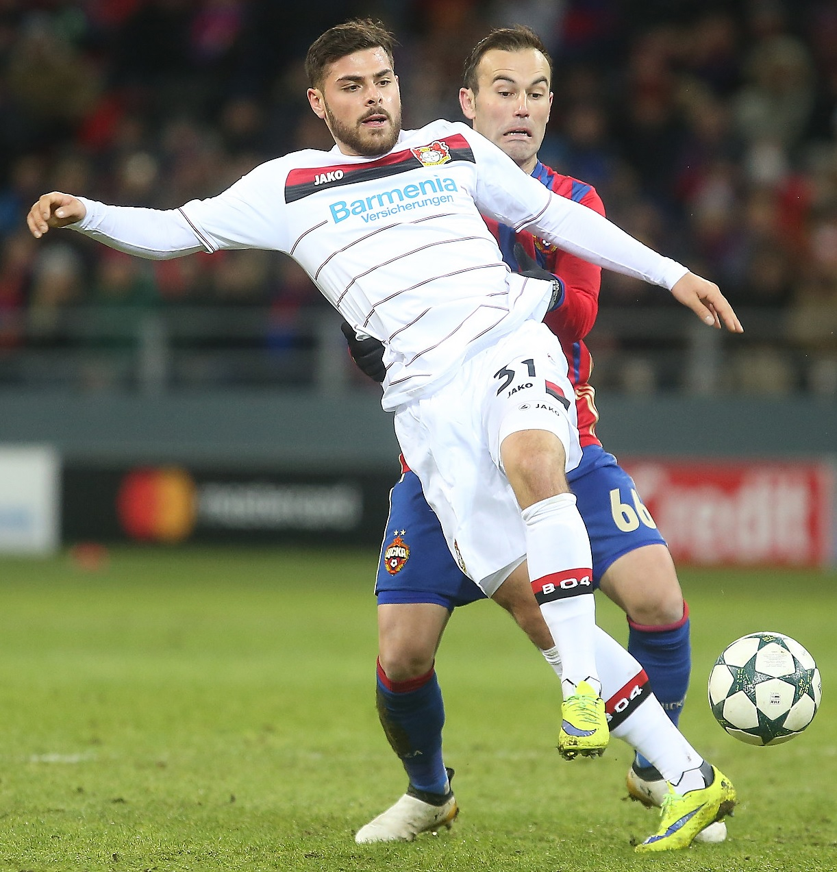 Kevin Volland in action for Bayer Leverkusen in a game against PFC CSKA Moscow.